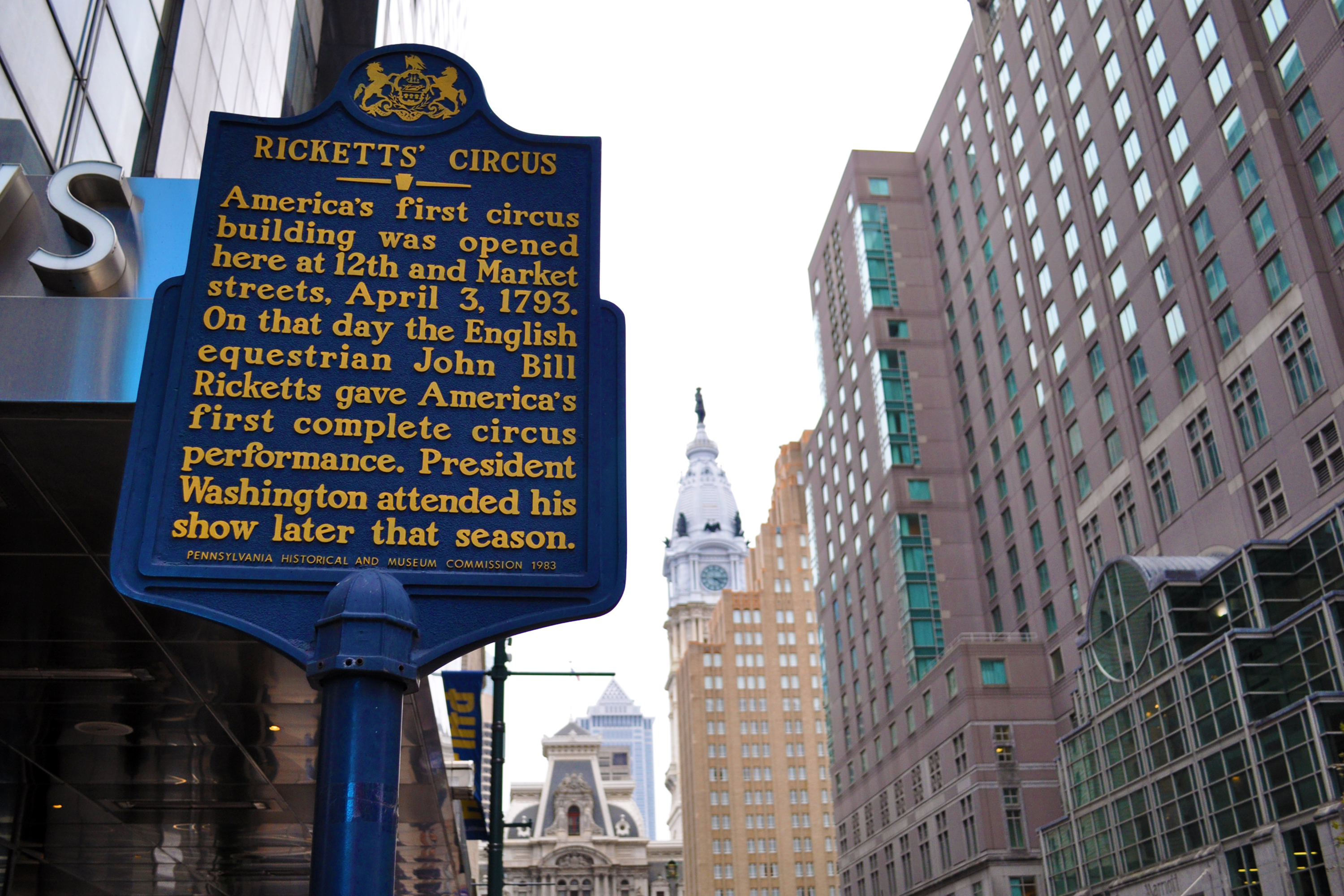 Ricketts' Circus. America's first circus building was opened here at 12th and Market streets, April 3, 1793. On that day the English equestrian John Bill Ricketts gave America's first complete circus performance. President Washington attended his show later that season. (Historical Marker at 12th and Market Sts Philadelphia PA - Pennsylvania Historical & Museum Commission 1983)